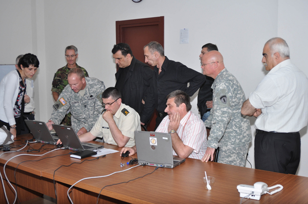 Soldiers from U.S. Army Europe lead a table-top exercise in the Republic of Georgia designed to prepare that country's government with natural disaster response capabilities.